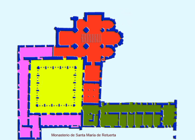 Plan of Santa María de Retuerta, a monastery located on the left bank of the Douro river, near the town of Sardón de Duero, in the province of Valladolid. It is a monastery which belongs to the premonstratensian order, built in late romanic style and founded by Sancho Ansúrez, count Ansúrez's grandson. Nowadays it is owned by Novartis enterprise.